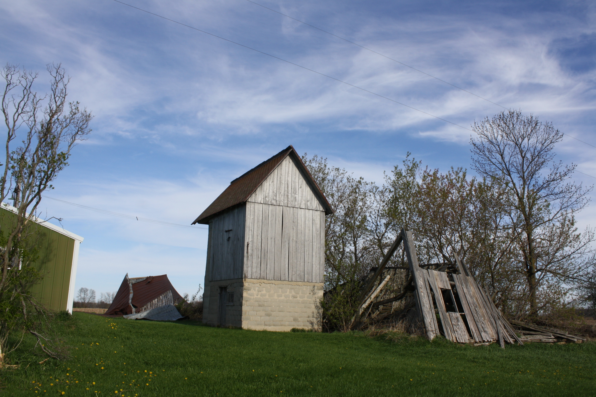 A barn and shed at the August Draize Farmstead. It is listed on the National Register of Historic Places.